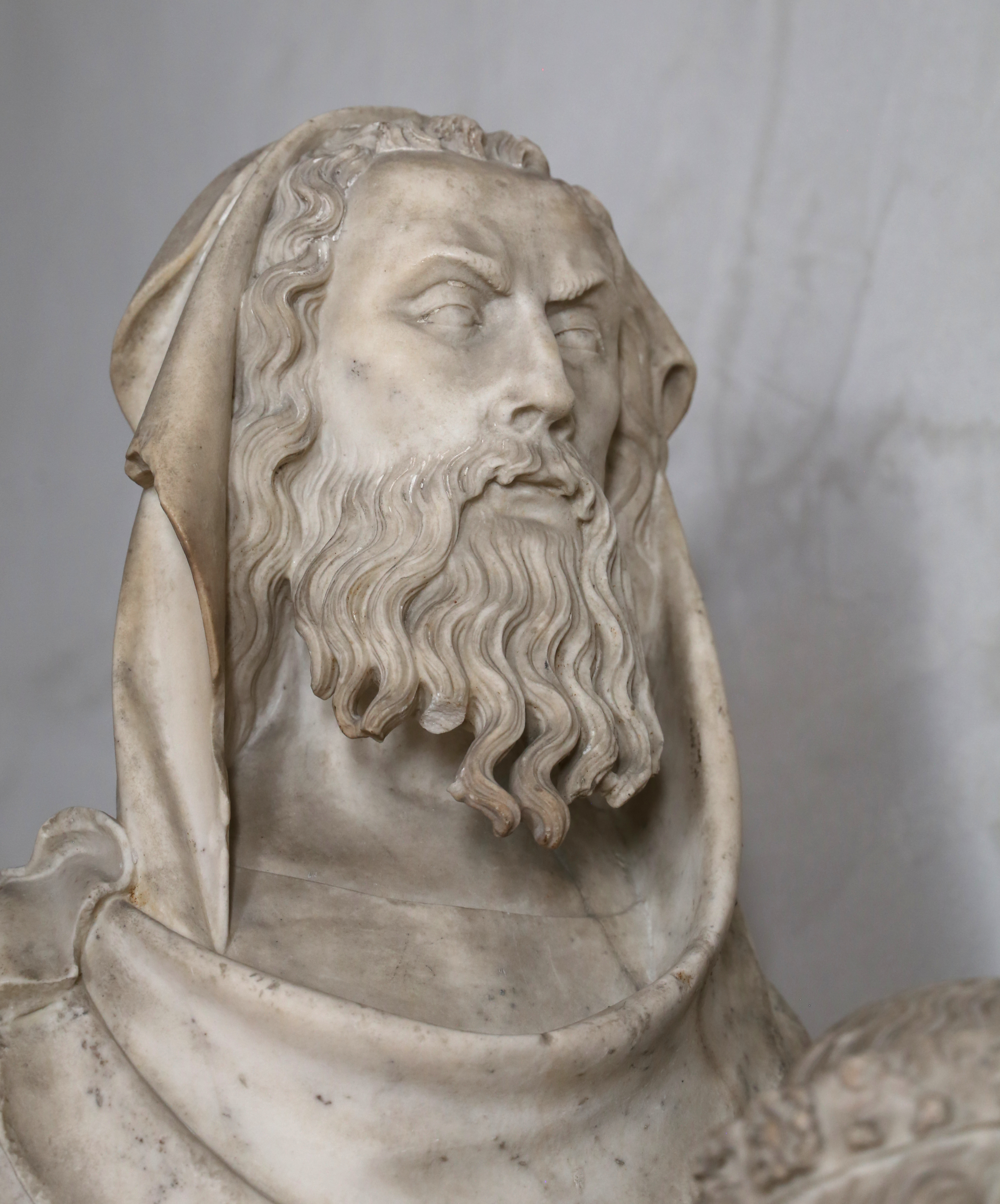 Tomb of Cardinal Jean de La Grange